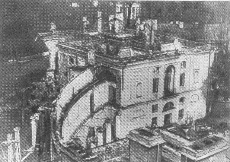 Pavlovsk (Russia), Pavlovsk Park.